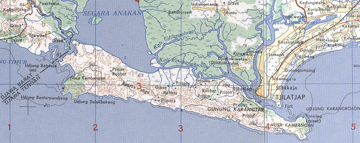 Detailed Map of Nusakambangan Island. From US Army Maps Service in Library of the University of Texas. Scanned from map dated circa 1950.